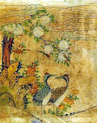 Minhwa (Korean folk painting) - The picture title, Ssanghak pandodo, literally means "the picture of two cranes and peaches in Sungyeong which is the Paradise in Korean Taoism.(蟠桃 :선경(仙境)에 있는 큰 복숭아)